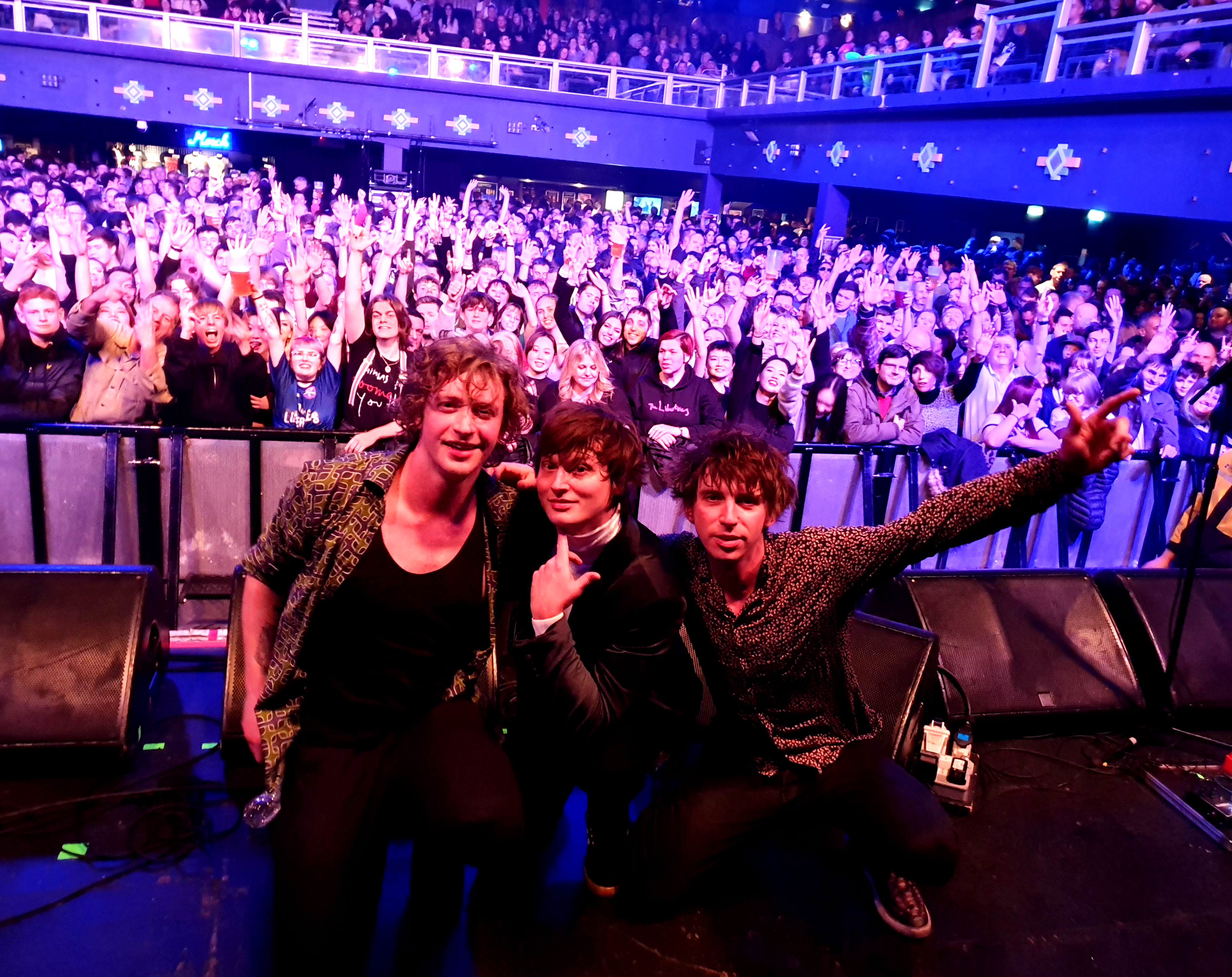 Trampolene on stage at Birmingham o2 Academy, December 2019